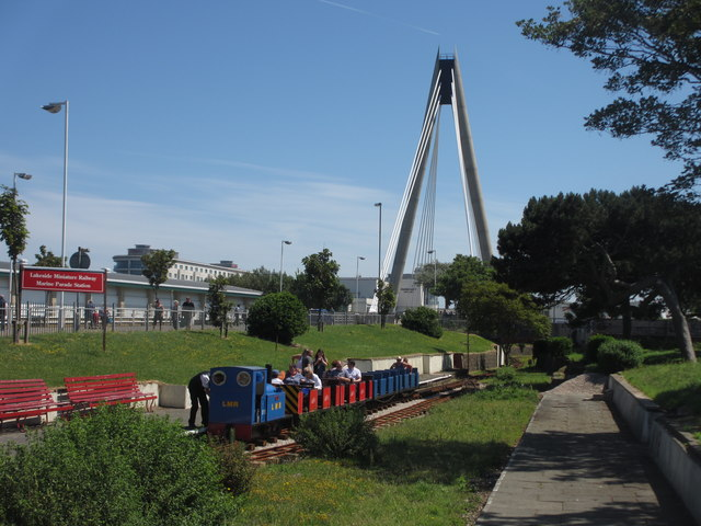 Lakeside Miniature Railway, Marine Parade Terminus